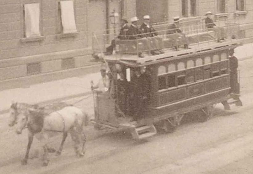 Horse tramway at Stuttgart, 1896